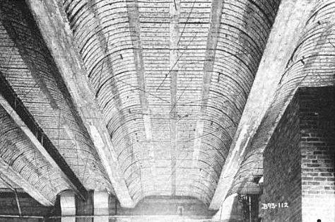 Hy-Rib ceiling at the Detroit Athletci Club